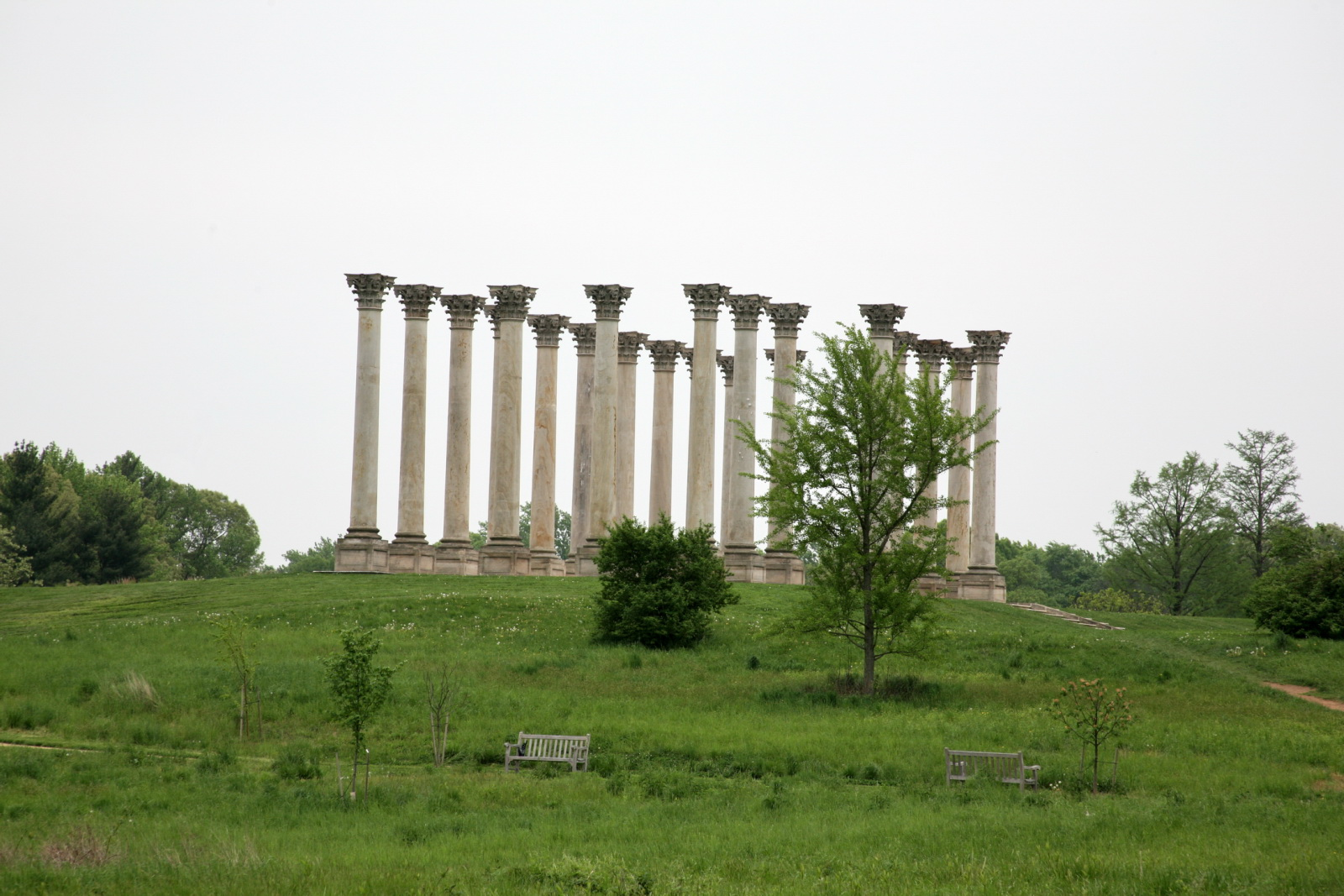 The columns began their life on the East Portico of the Capitol in 1828. They were quarried from sandstone near Aquia Creek in Virginia and were barged to Washington in the early days of our country, before the familiar Capitol dome was completed. Their stay at the Capitol was to be limited by an oversight. The dome of the Capitol, completed in 1864, appeared as if it was not adequately supported by the columns because the iron dome that was ultimately built was significantly larger than the dome that the designer envisioned. An addition to the east side of the Capitol was proposed to eliminate this unsettling illusion, but it was not constructed until 1958.